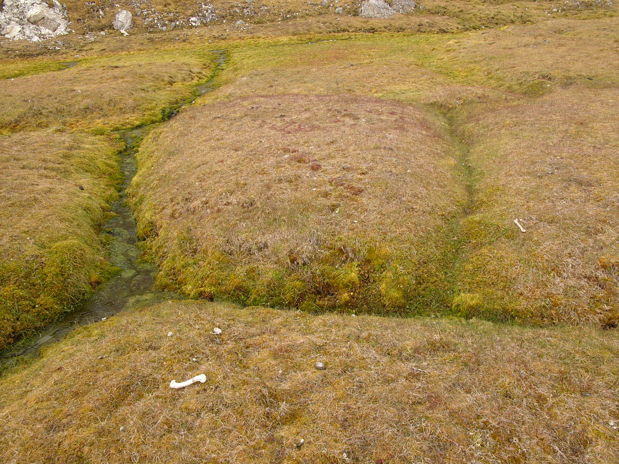 Ice wedge, seen from top, Spitzbergen/Svalbard